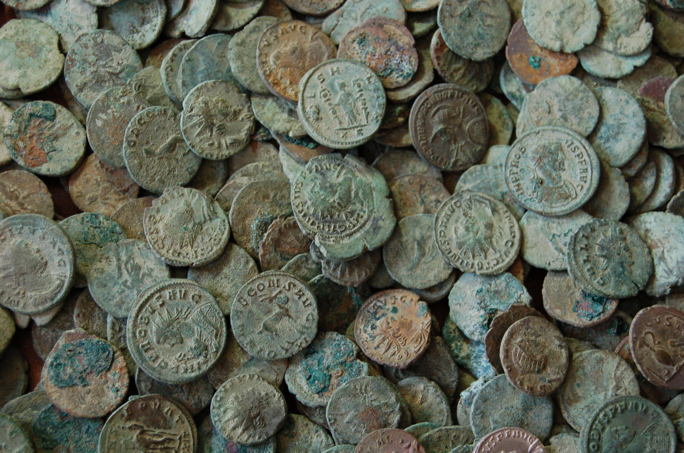 Close up of the coin hoard